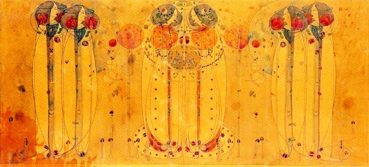 The Wassail